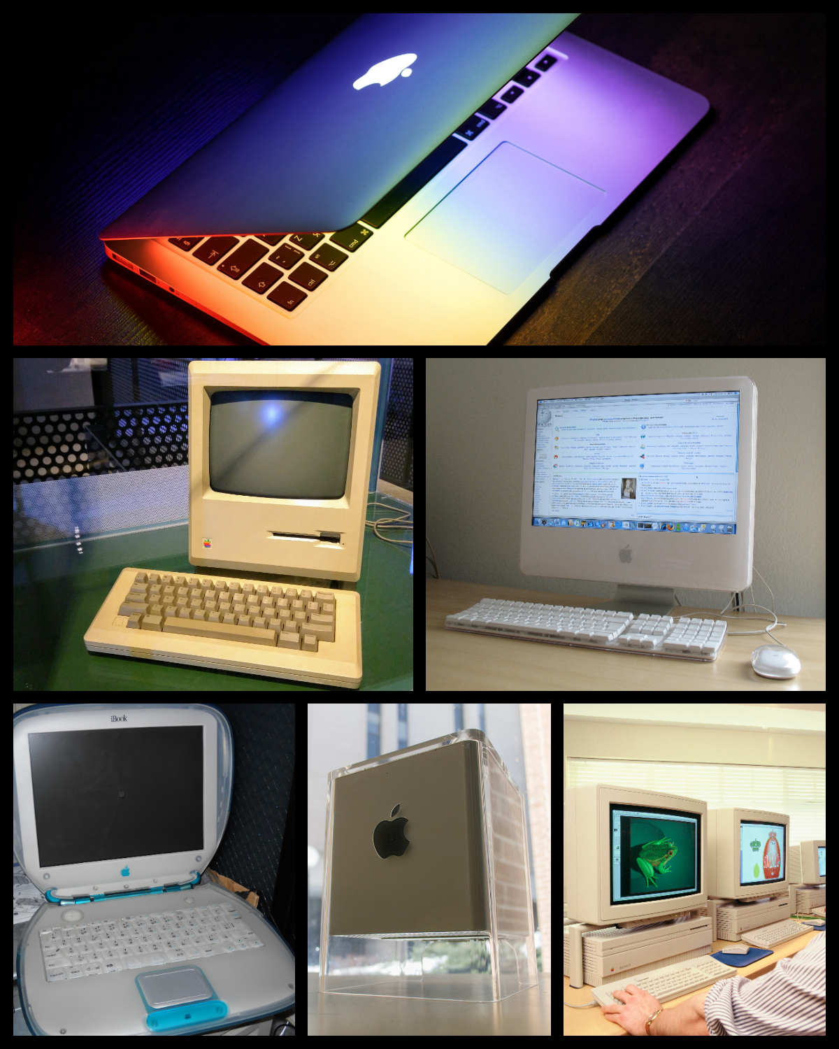 Montage of six Macintosh models. Clockwise from top: MacBook Air (Early 2015), iMac G5 20", Macintosh II, Power Mac G4 Cube, iBook G3 Blueberry, Original Macintosh 128K